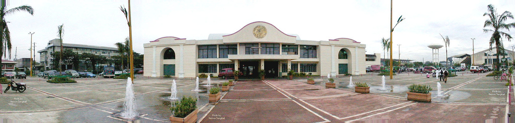 City Hall of Marikina